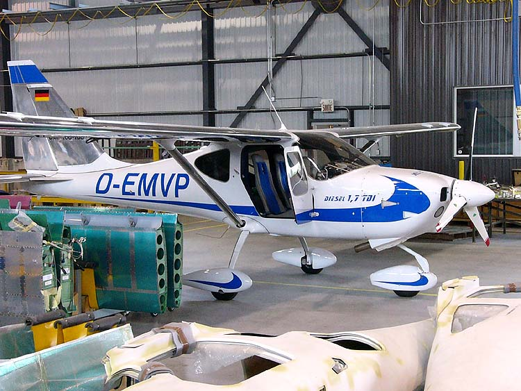 Photo of the Thielert Centurion 1.7 equipped SA-160 (D-EMVP) at the Symphony plant August 2005